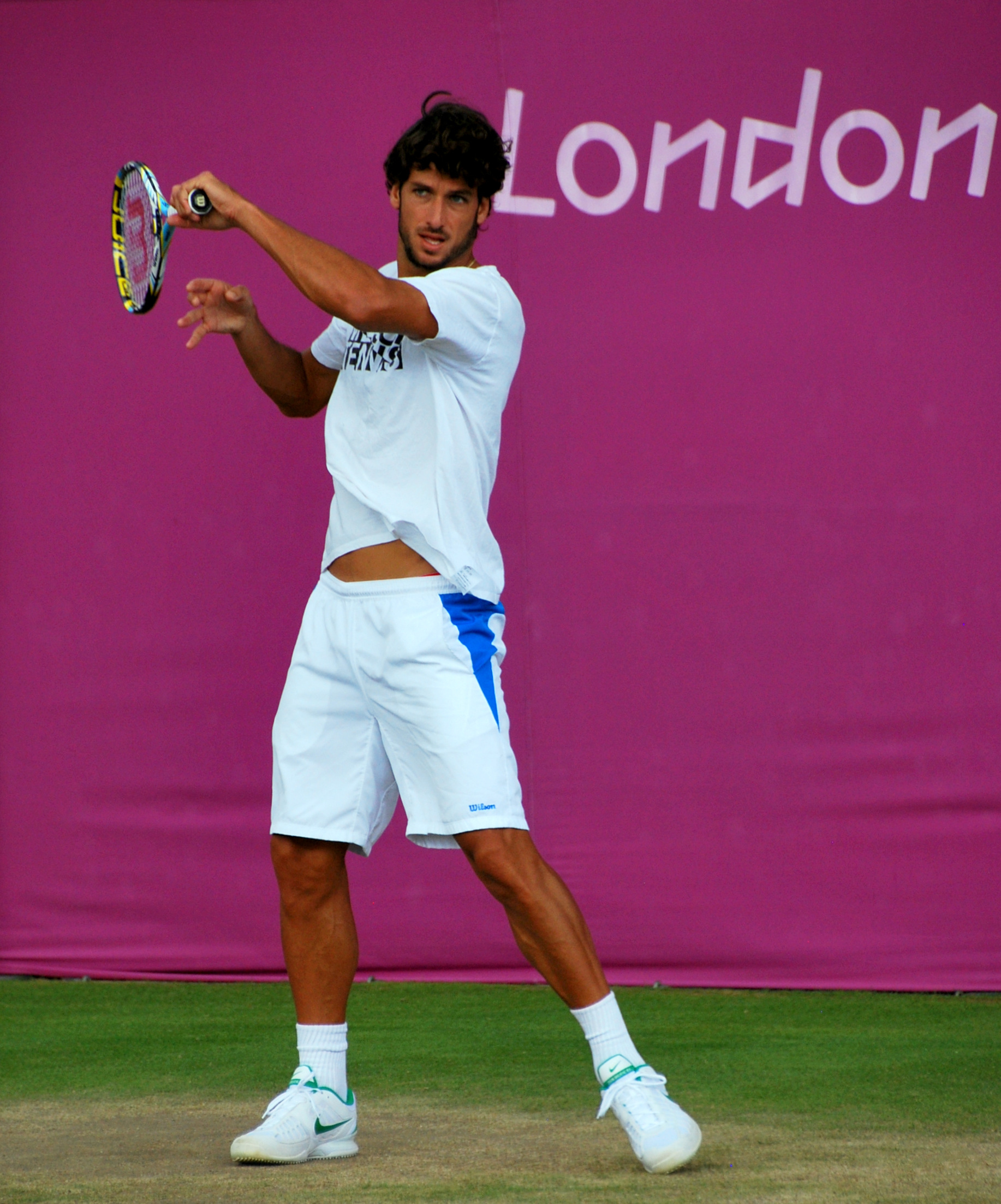 Feliciano Lopez on the practice court.